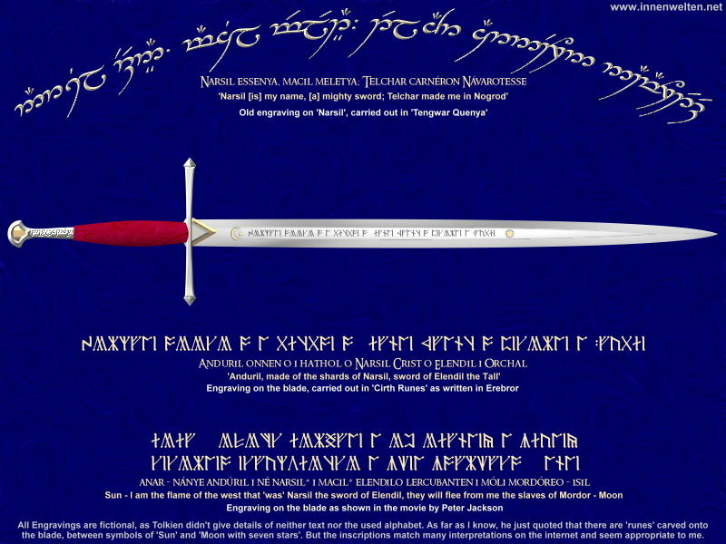 Narsil / Andúril - final version with different engraving Andúril, the Blade of Aragorn, heir of Isildur, forged out of the shards of Narsil (which was Elendils sword). I tried to "reconstruct" how it may have looked like in Tolkiens 'Lord of the ring. Artist: Gerald Stiehler website, 2005-01-27 Made with the path tool in "photo impact 8", ... using bumpmaps of elvish runes, as provided by Dan Smith website 'tengwar annatar.ttf' & 'cirth erebor.ttf' and using the wonderfull Tengwar Writing Program TengScribe. All the inscriptions are hypothetical, as Tolkien didn't describe exactly, what he had in mind when talking about "engraved runes" on the sword. But the text matches different interpretations I found on the net, that seem appropriate to me. Feedback would be appreciated (using my website).